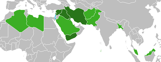 This is a map of countries (in green) that reject passports from Israel (blue). Countries that reject not only Israeli passports but also any passport which contain Israeli stamps or visas are in dark green. The depicted countries are (from left to right): Algeria, Libya, Sudan, Somalia, Saudi Arabia, Yemen, Lebanon, Syria, United Arab Emirates, Iran, Pakistan, Bangladesh, Malaysia and Brunei. ERROR: On the map, Oman is colored, bot Somalia has not. Either the map or the list of countries is incorrect.